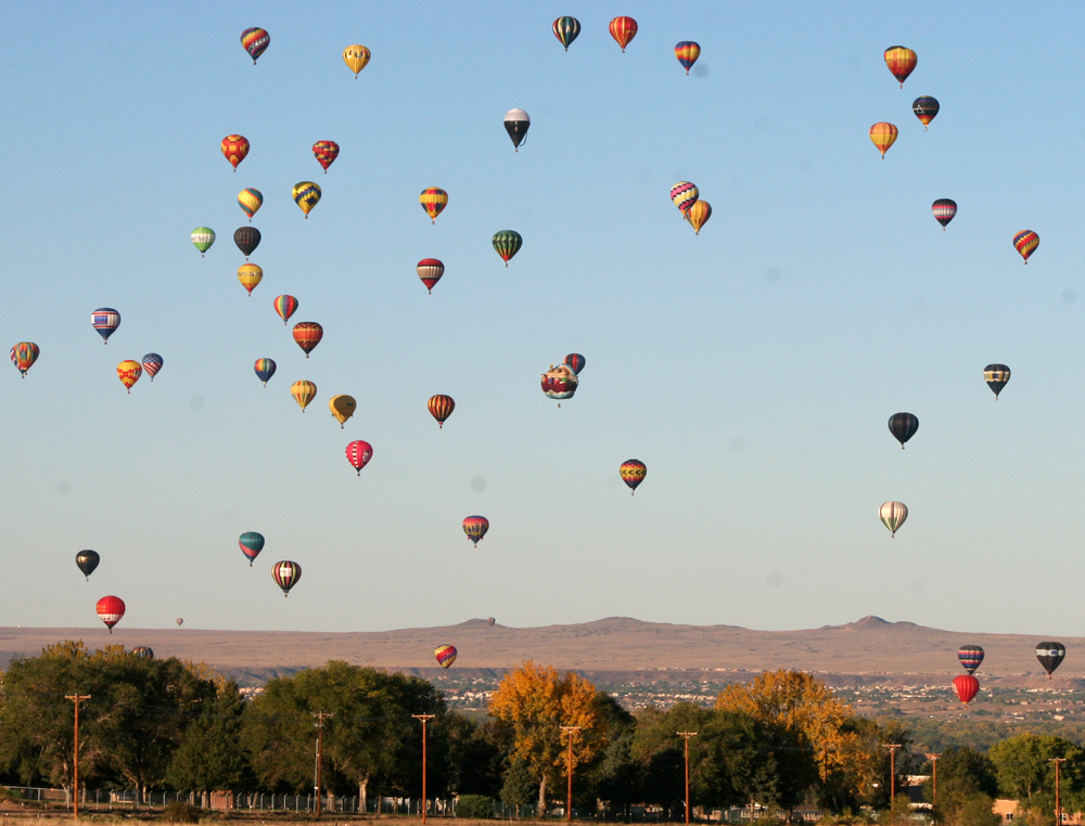 The Albuquerque International Balloon Fiesta 2012 brought about 550 balloon pilots from 19 different countries.